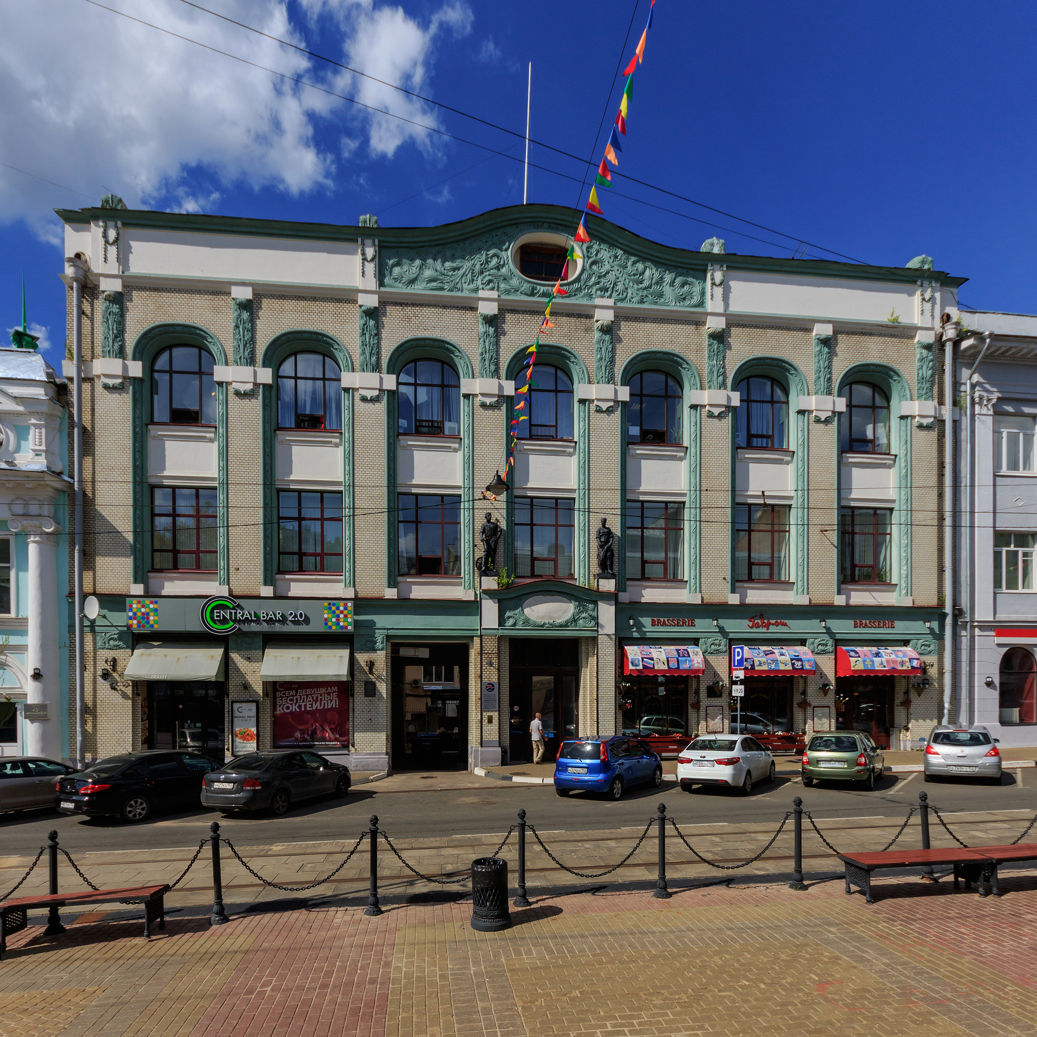 Building at 23, Rozhdestvenskaya Street in Nizhny Novgorod, Russia